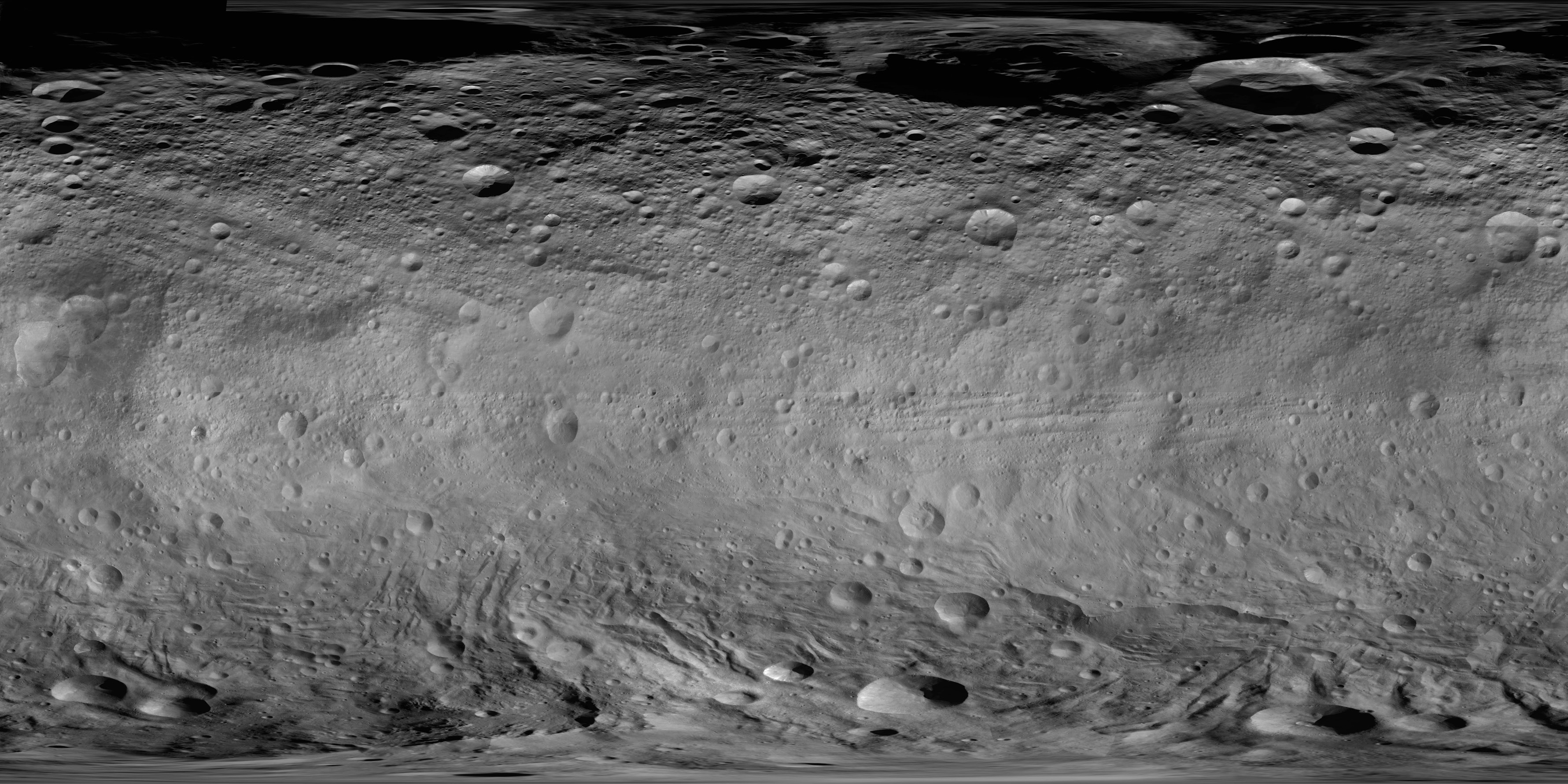 Global photomap of asteroid 4 Vesta, based on the Dawn spacecraft's framing camera (FC) imagery. North is up. Image covers 90 degrees north to 90 degrees south; left edge is 330 degrees longitude, with 0 degrees longitude just to the right. For feature names and exact lines of latitude and longitude, see Map of Vesta with feature names.png. For image information, see: Roatsch, Th.; Kersten, E.; Matz, K.-D.; Preusker, F.; Scholten, F.; Jaumann, R.; Raymond, C.A.; Russell, C.T. (December 2012). "High resolution Vesta High Altitude Mapping Orbit (HAMO) Atlas derived from Dawn framing camera images". Planetary and Space Science 73 (1): 283-286. The Vesta cartographic coordinate system used in this map has been recommended by the IAU.